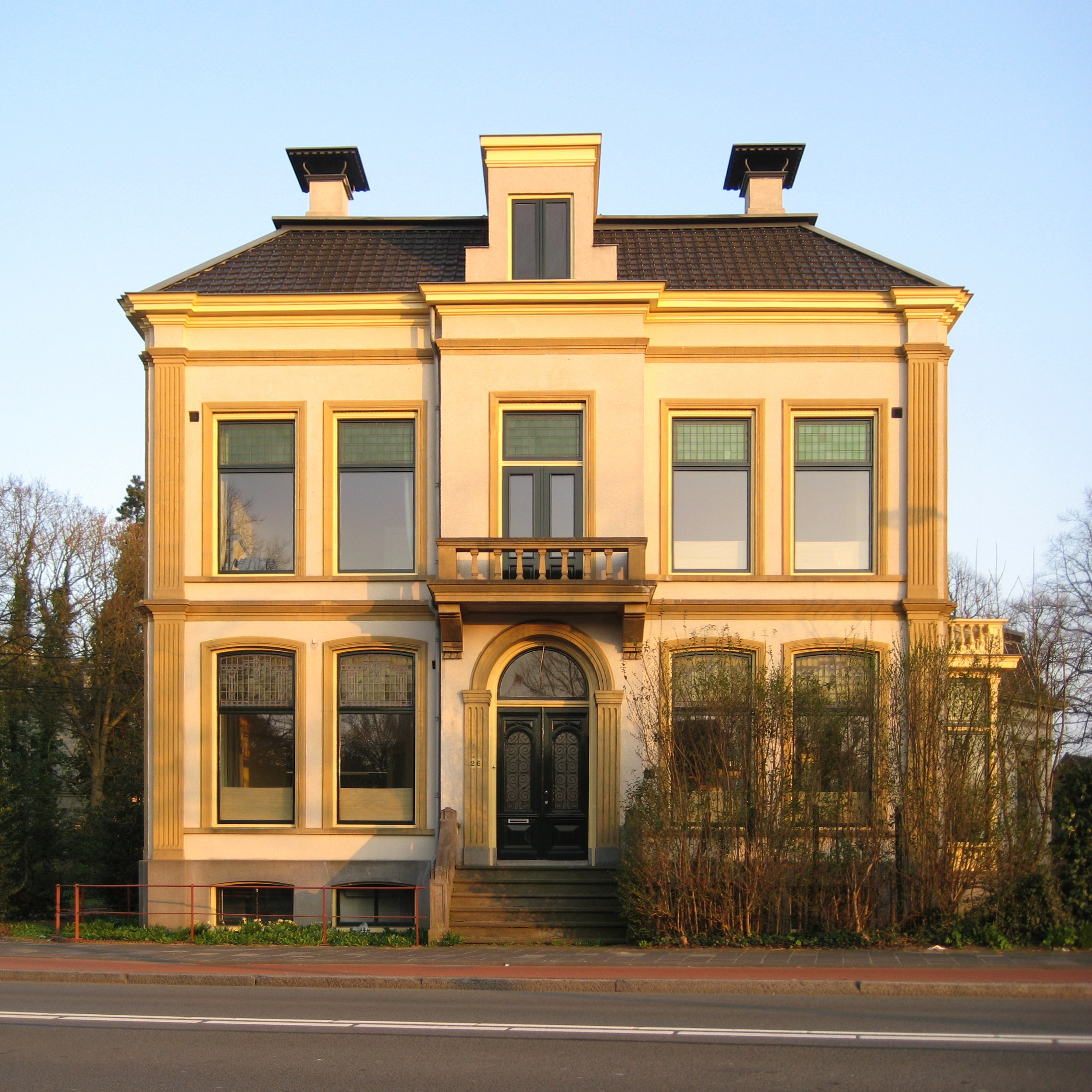 Villa (1881) in the Dutch city of Groningen.